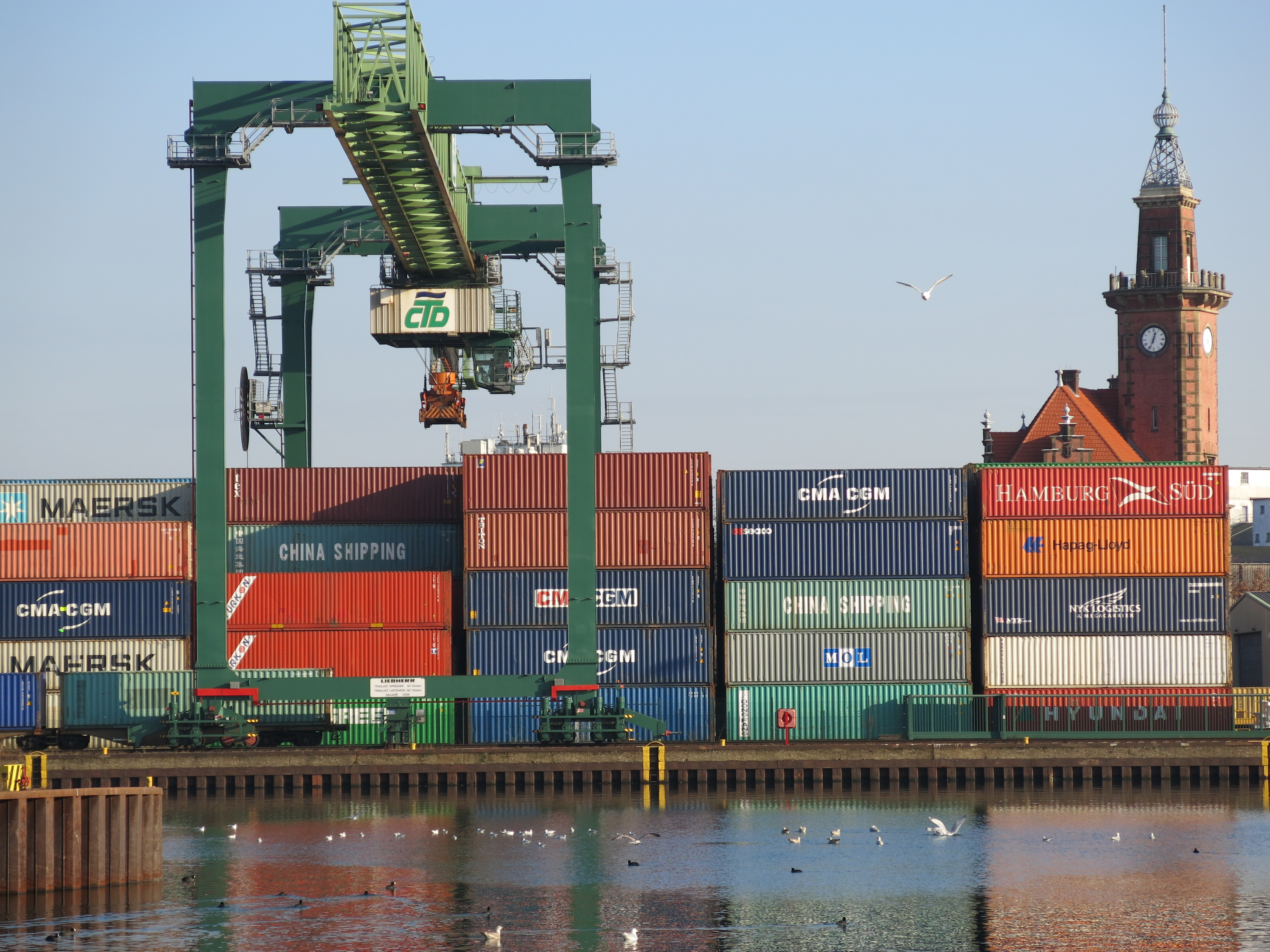 Port of Dortmund, Container terminal and old habour building